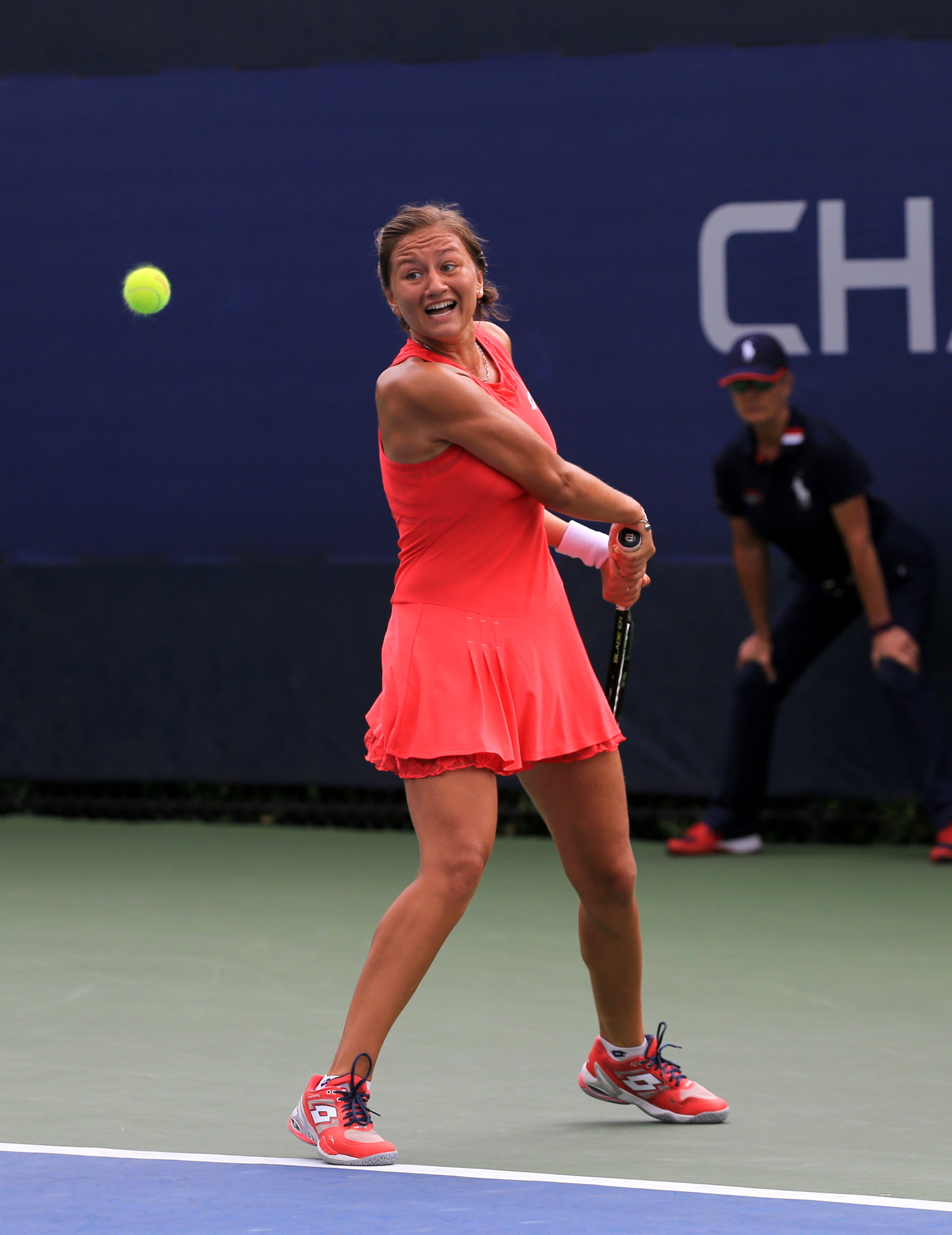 Iryna Shymanovich at the 2015 US Junior Open